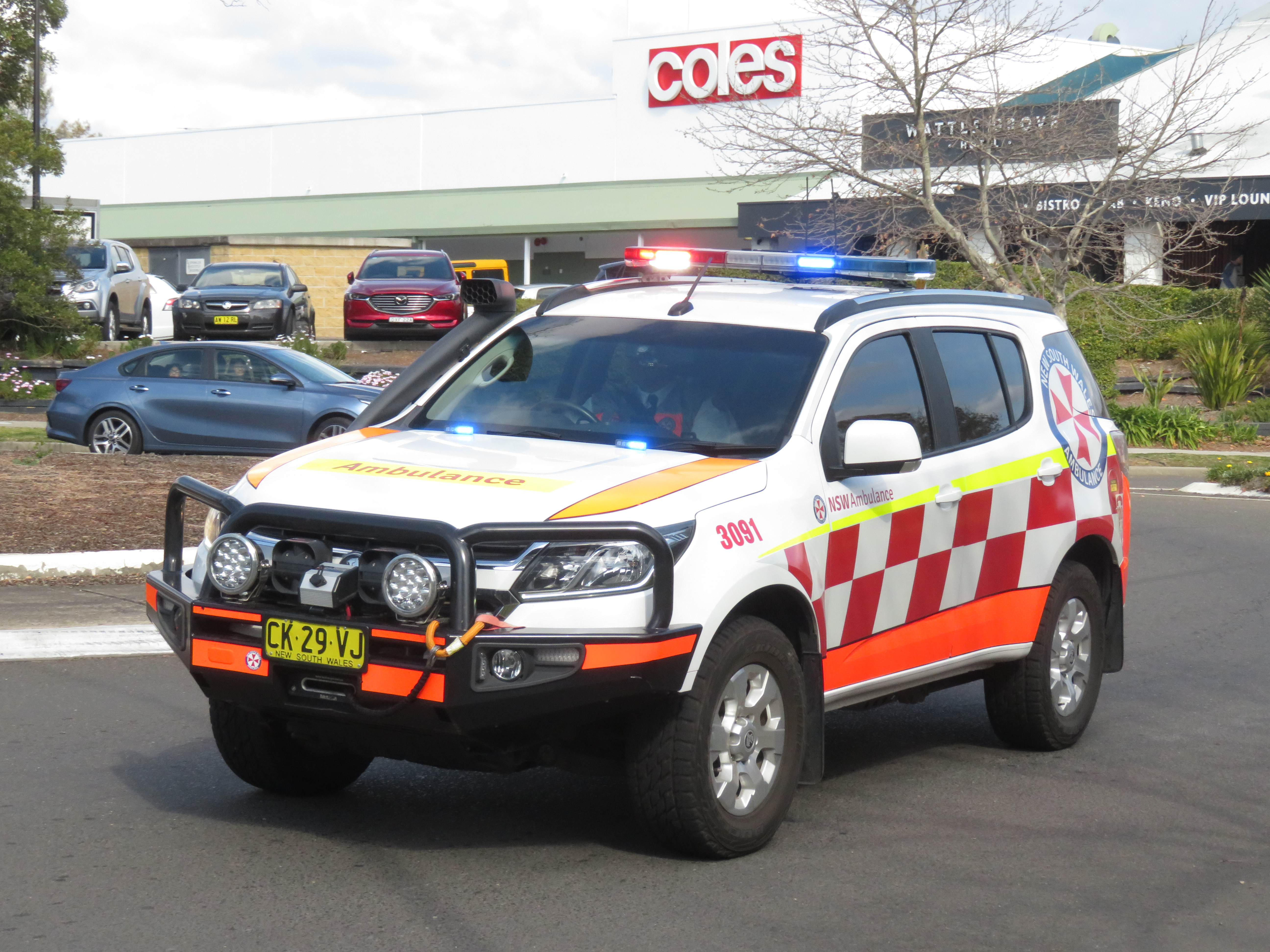 New South Wales Ambulance Holden Trailblazer South West Duty Operations Manager Inspector 91